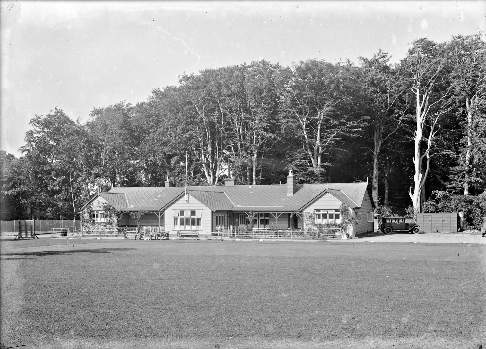 We are off to the leafy suburbs of South Dublin today courtesy of the Eason collection. I am fully expecting that we can identify the location, the names of the 3 men, the make and model of the fancy motor car and finally the date on which this photo was taken! With usual aplomb (we're barely surprised any more), today's contributors established that this is almost certainly Grange Golf Club in Rathfarnham, most likely captured in the mid-1930s (probably after the new club house opened in 1935), and the car pictured possibly a mid-1930s Morris Motors automobile.... Photographer: Unknown Collection: Eason Photographic Collection Date: Between ca. 1900-1939 (possibly mid-1930s) NLI Ref: EAS_1906 You can also view this image, and many thousands of others, on the NLI’s catalogue at